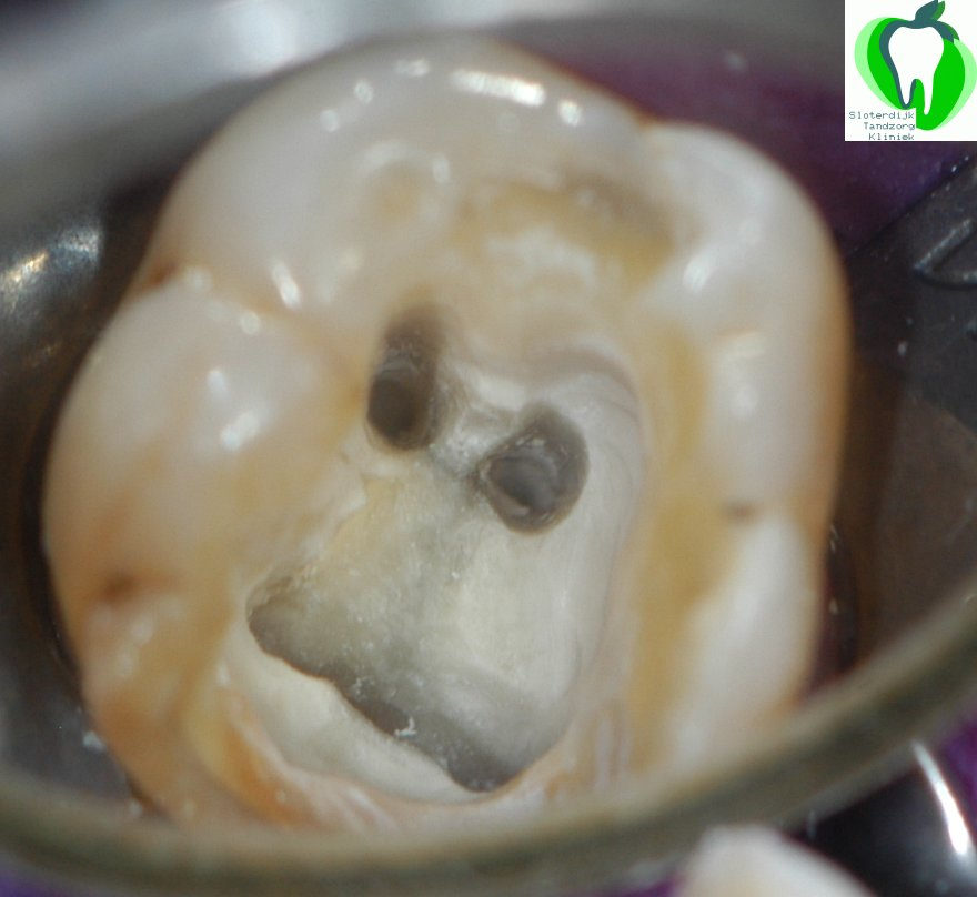 Root canal treatment, lower molar with 4 canals.